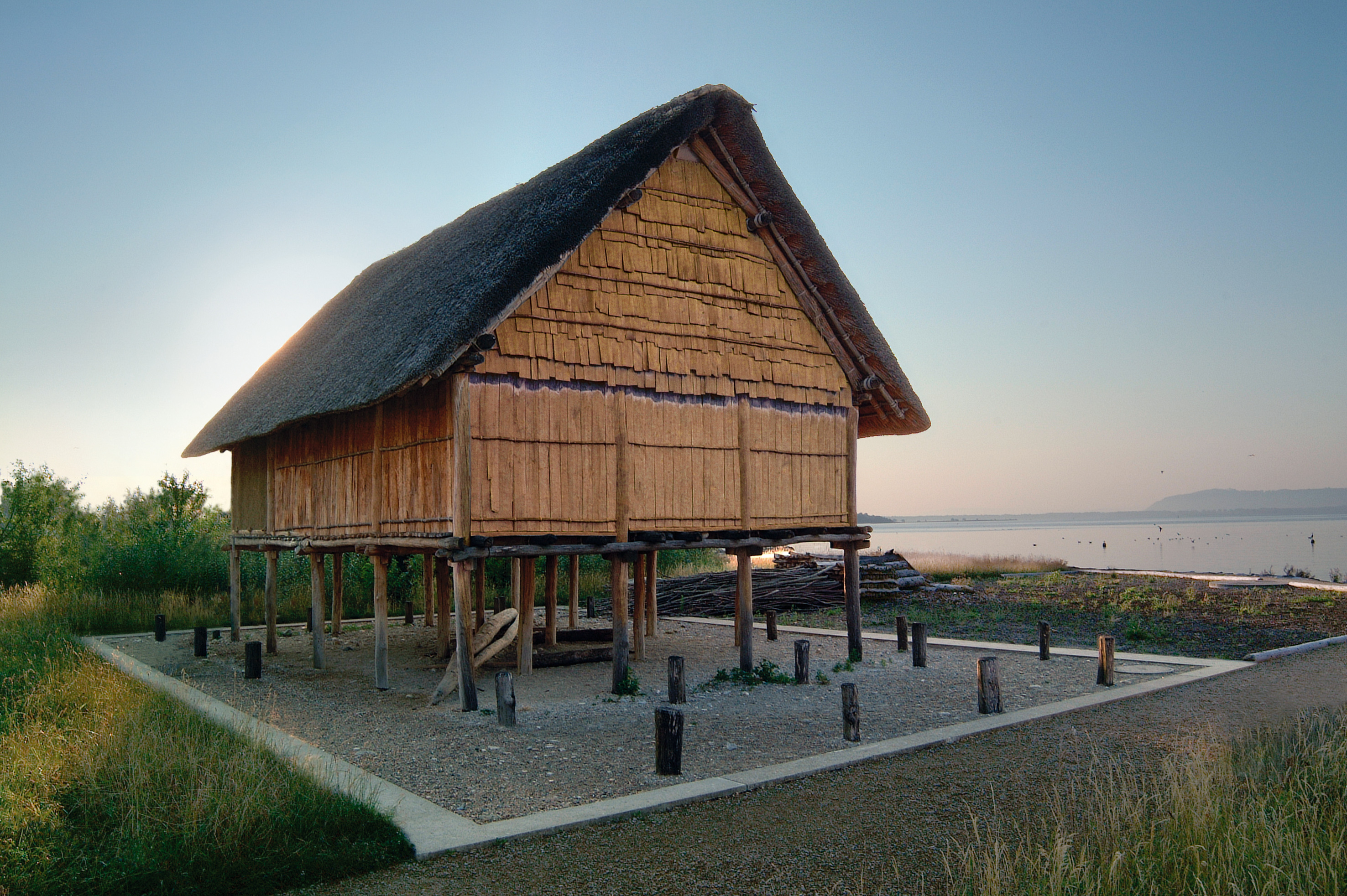 Replication of Bronze Age house, ca 1000 B.C. Picture by J. Roethlisberger / Laténium.